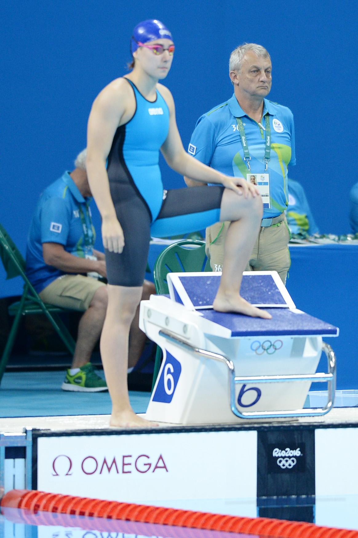 Swimming at the 2016 Summer Olympics – Women's 100 metre freestyle, Alkaramova